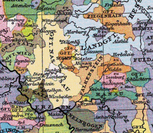 Counties of Nassau, Solms, Falkenstein, Isenburg around 1400